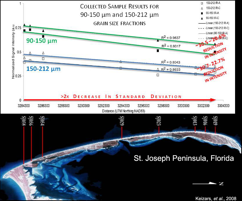 thermoluminescence loss during migration at beaches